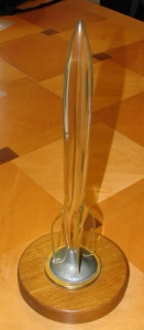 1991 Hugo Award with variant base